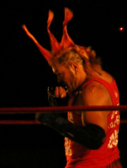 Mr. Aguila in November 2007. Cropped from original, and brightened. Camera: Fujifilm FinePix S5700 S700 License on Flickr: CC-BY-SA-2.0 Flickr tags: mr., aguila, mexicali, cmll, lucha, libre